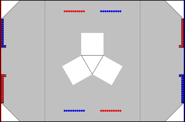 The Half-Pipe Hustle field in the operator control period.